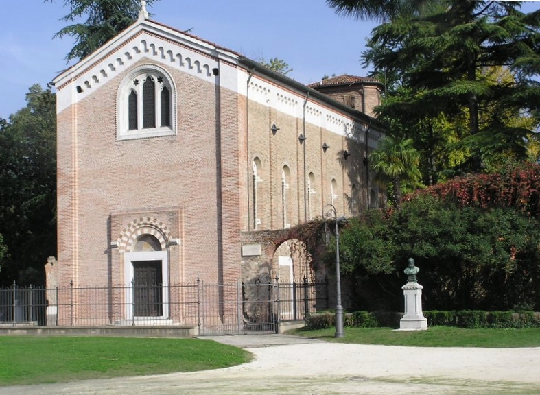 The building of the Cappella degli Scrovegni (Scrovegni chaple) in Padua, Italy.